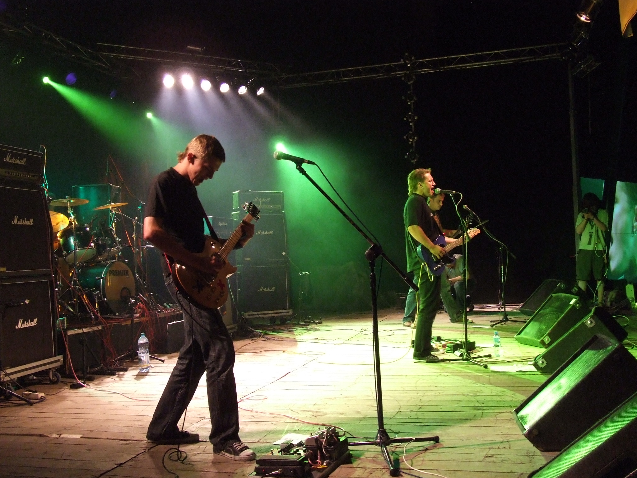 Group :B:N: at Basowiszcza festival 2007.